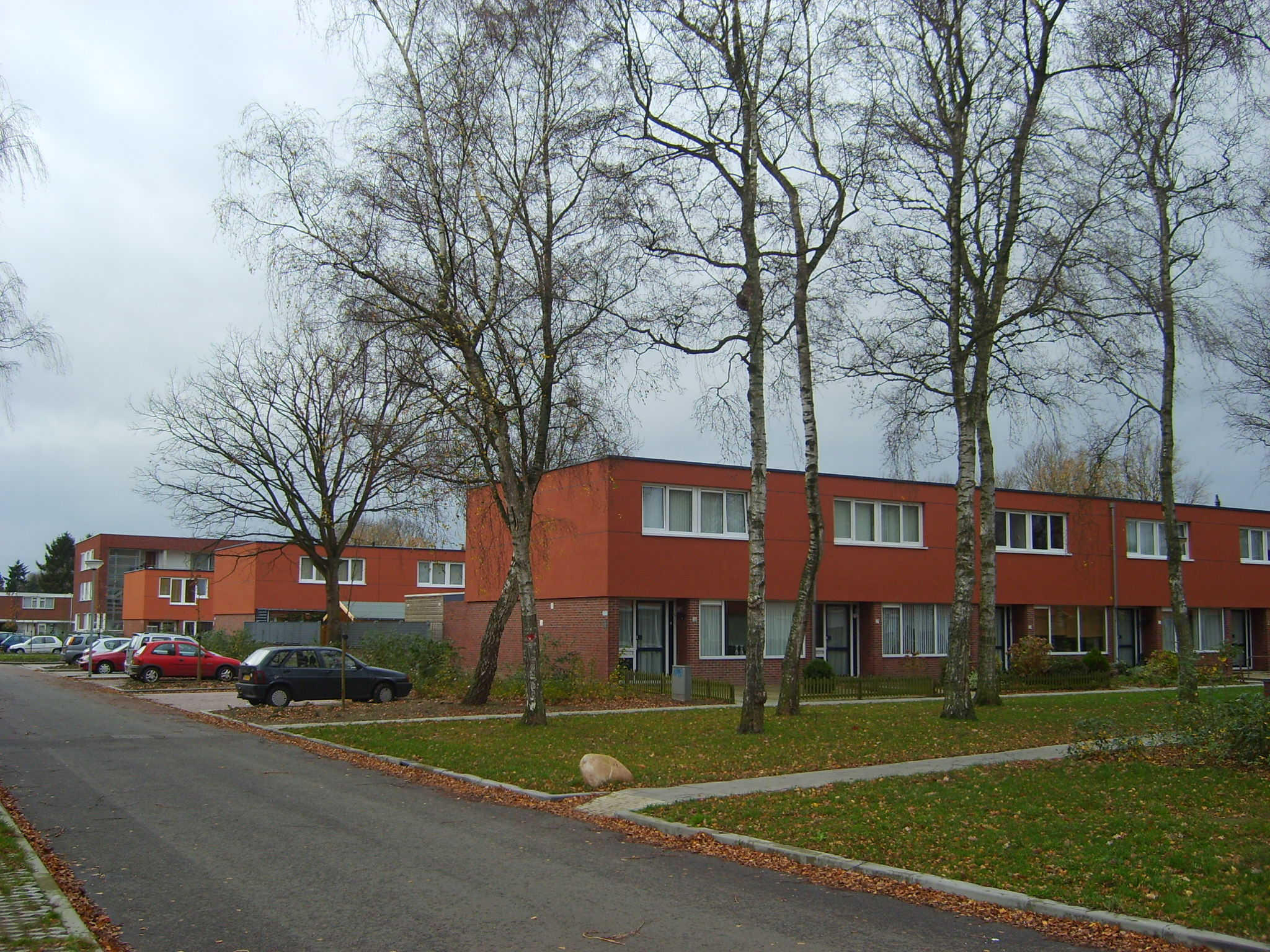 urban restruction